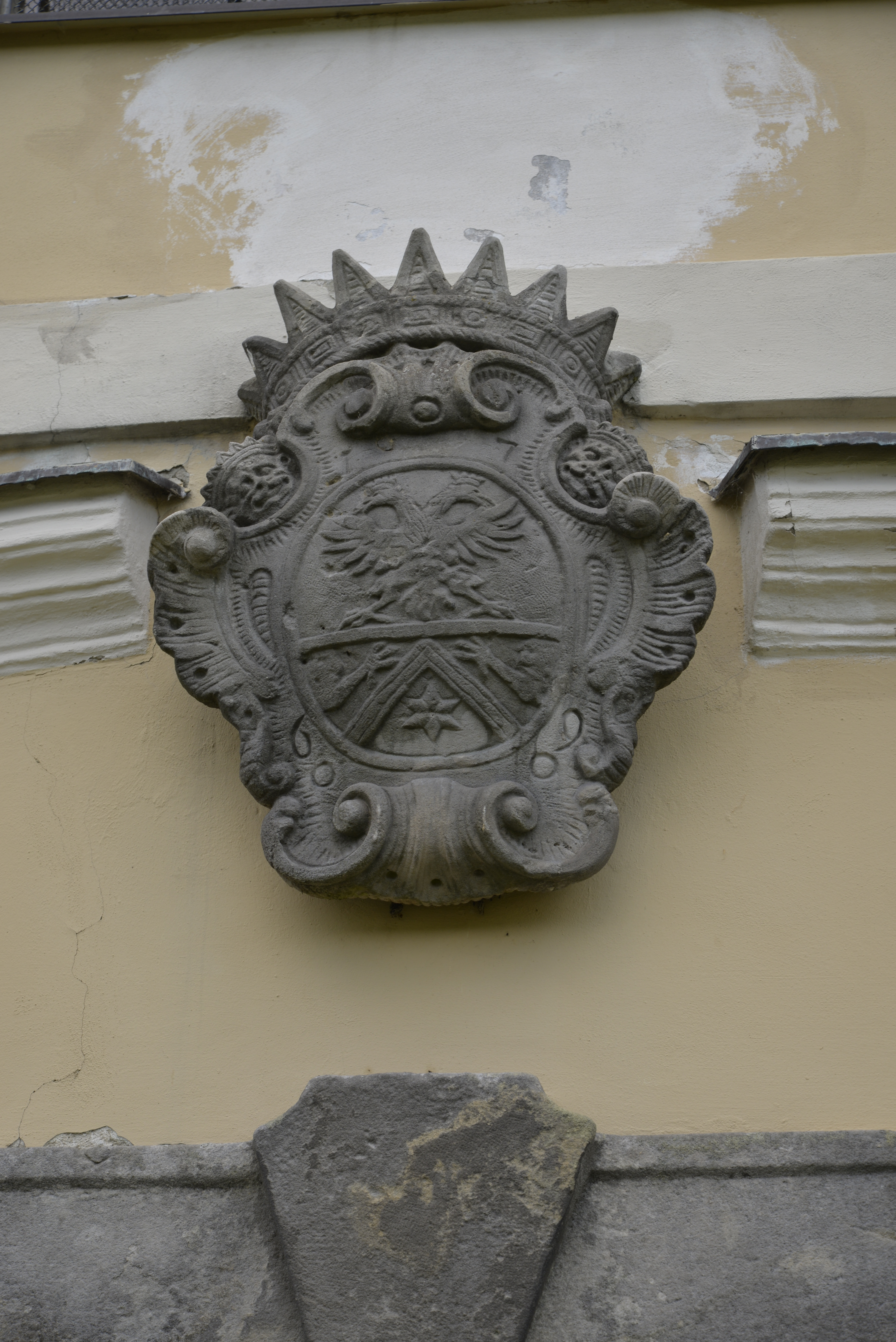 Saint John of Nepomuk church in Železný Brod, Na poušti, parc. 656, Železný Brod.